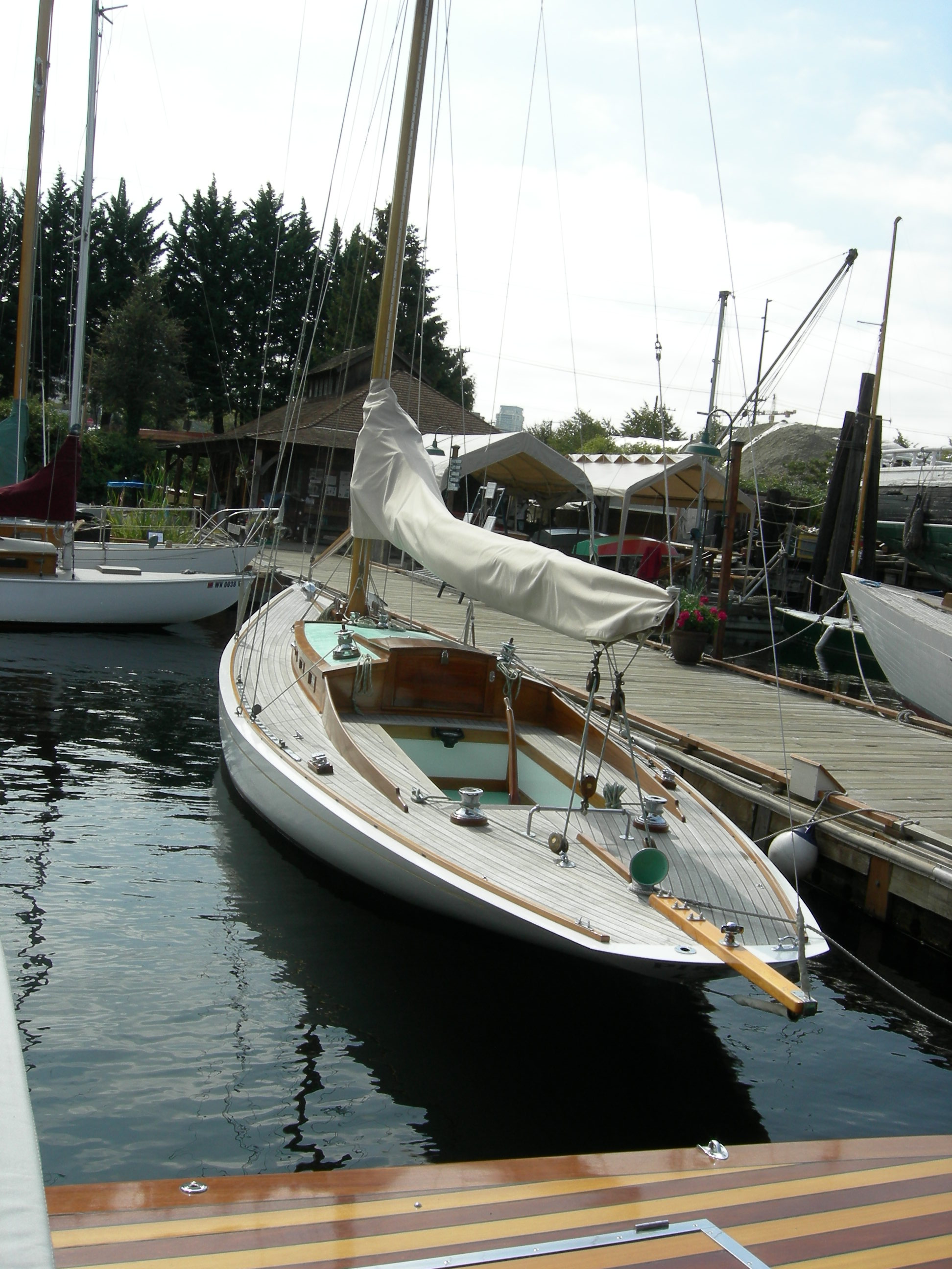 The R-class sloop Pirate, moored at the Center for Wooden Boats, Seattle, Washington, USA is listed on the National Register of Historic Places, ID #00000968. There is an extremely detailed article about this boat in the September/October 2006 issue of WoodenBoat magazine, p. 38–47.